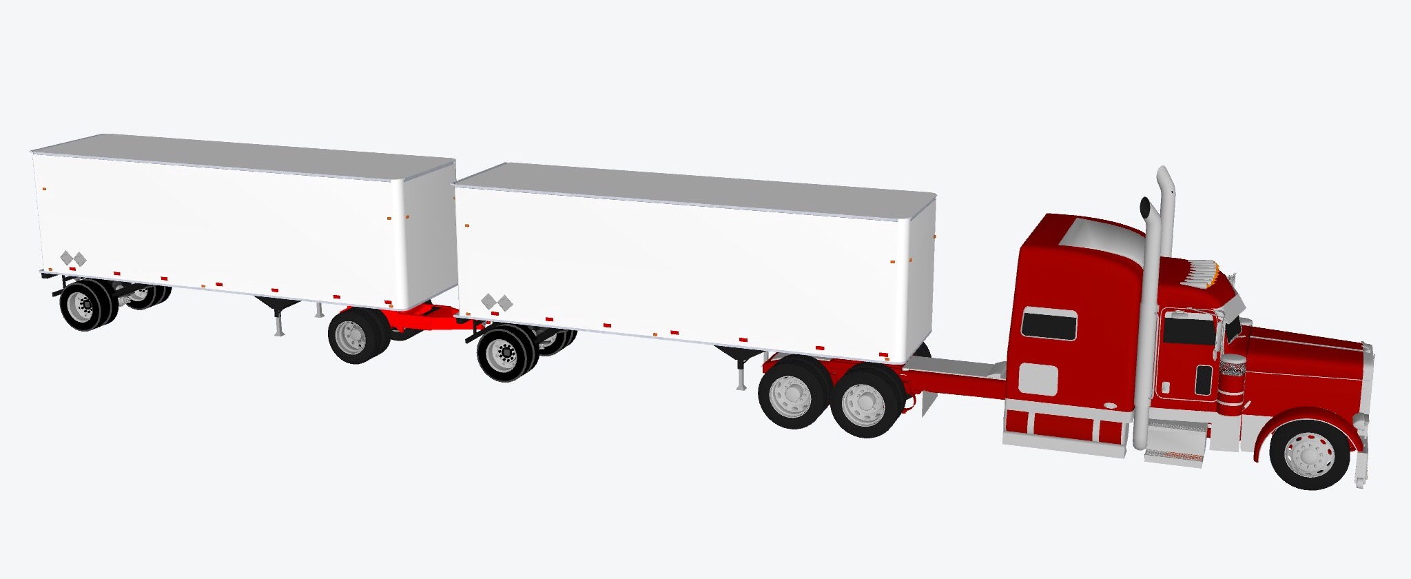 3D rendering of a STAA double Pup - two 28.5 ft trailers I hereby affirm that I, (kcida10) the creator of ( STAA double pup ) is my work. I agree to publish that work under the free license I acknowledge that by doing so I grant anyone the right to use the work in a commercial product or otherwise, and to modify it according to their needs, I am aware that this agreement is not limited to Wikipedia or related sites. Modifications others make to the work will not be claimed to have been made by me. I acknowledge that I cannot withdraw this agreement, and that the content may or may not be kept permanently on a Wikimedia project. Kcida10 La Crosse, WI 54603. I am the designer and creator of the 3D model ( STAA double pup ) on Sketchup Make's open source repository. 29Nov15